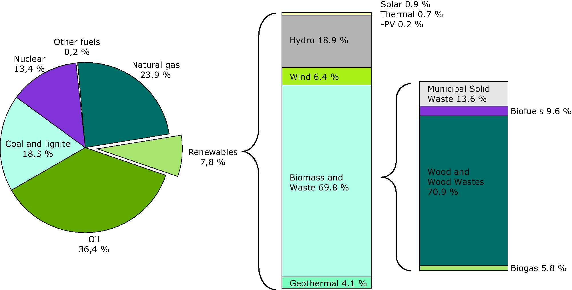 Primaarenergia joonis